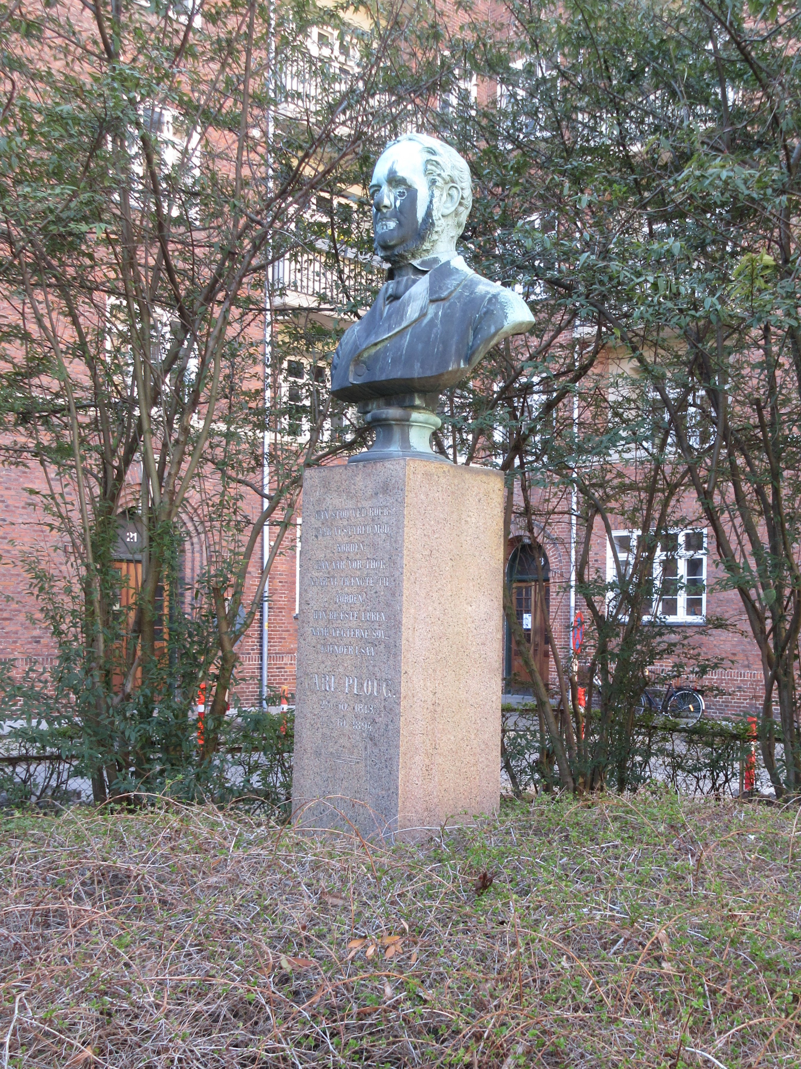 Bust of Carl Ploug